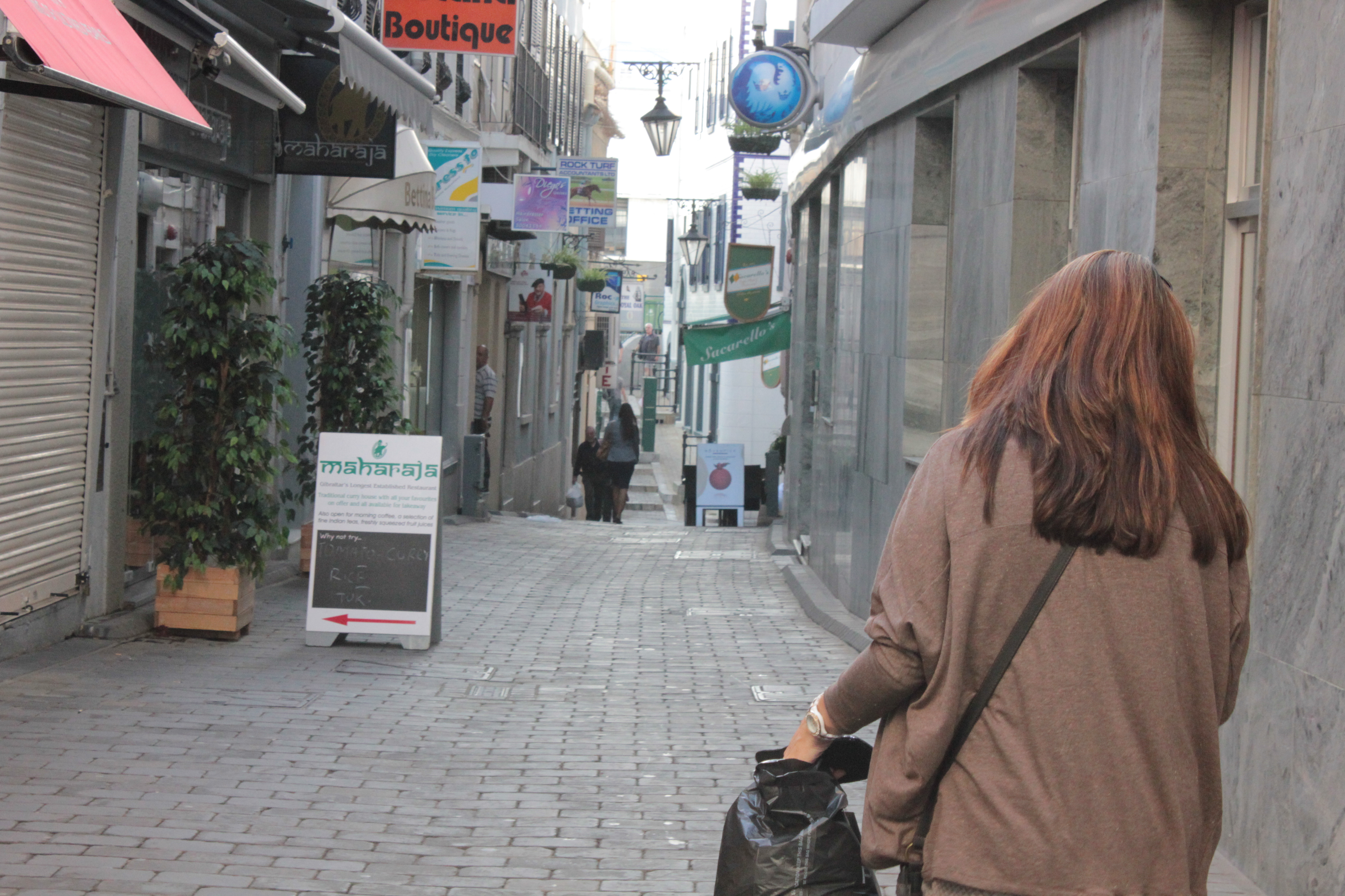 Tuckey's Lane, Gibraltar